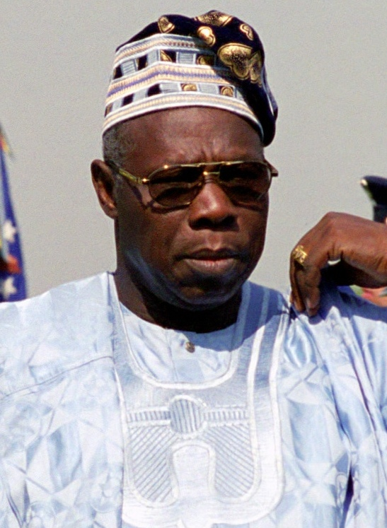 President Matthew Olusegun Aremu Obasanjo, Federal Republic of Nigeria, participates in a Full Honor Arrival Ceremony hosted by the Honorable Donald H. Rumsfeld, U.S. Secretary of Defense, at the River Entrance of the Pentagon, Washington, D.C., May 10, 2001.